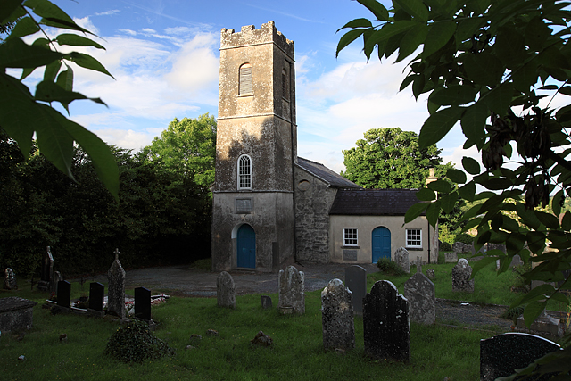 St Colman's Church, Farahy. Noteworthy for its association with the author Elizabeth Bowen (1899-1973) who lived at Bowen's Court (now demolished), and is buried in the churchyard. The church was built in 1721 and is an excellent example of what is now a very rare early 18c Church of Ireland church in Co. Cork. It has attached to it another very rare example of an early 18c Church of Ireland schoolhouse, that is now used as the vestry. There is a dated wall plaque of 1721 recording the school's inception 1392173.